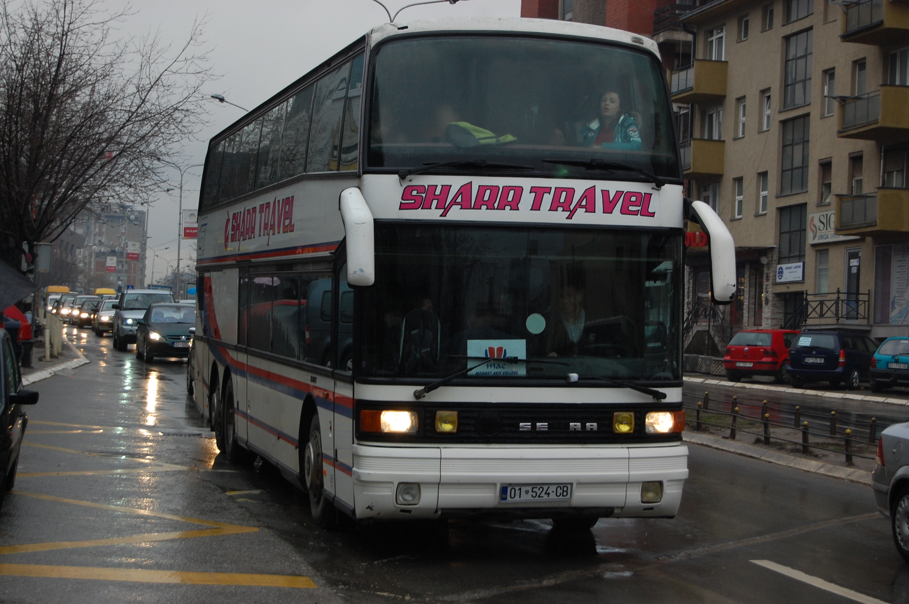 A bus on Agim Ramadani Street in Pristina, Kosovo.